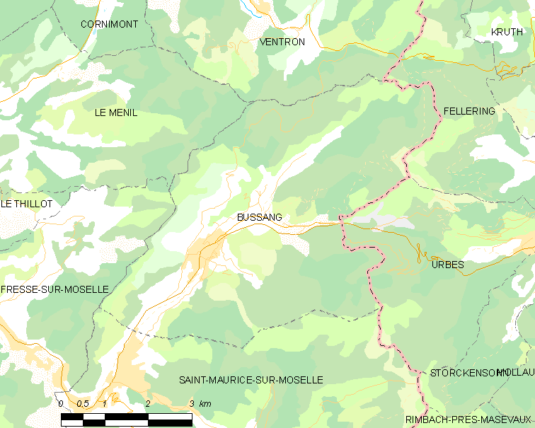 Map of French municipality Bussang